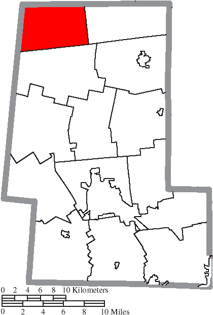 Map of the municipal and township boundaries of Union County, Ohio, United States, as of the 2000 census, with the location of Washington Township highlighted. Township borders are shown only in unincorporated areas in order to differentiate incorporated and unincorporated areas more clearly.